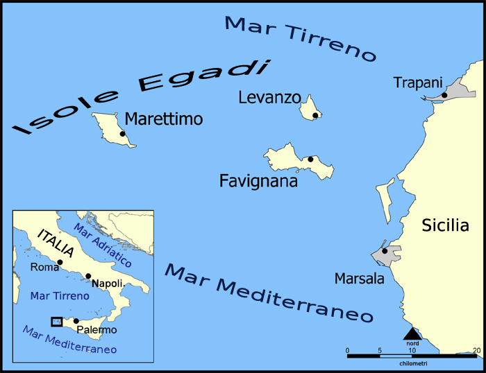 Map of the Aegadian Islands showing the islands of Favignana, Levanzo, and Marettimo, and the nearby port cities of Trapani and Marsala, Sicily. Created by NormanEinstein, May 19, 2005.